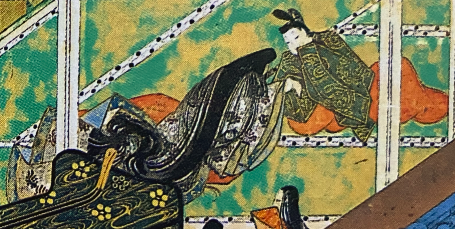 Empress Kishi (Saionji Kishi) and Emperor Go-Daigo. From Taiheiki Emaki (c. 17th century), vol. 2, On the Lamentation of the Empress. Owned by Saitama Prefectural Museum of History and Folklore.